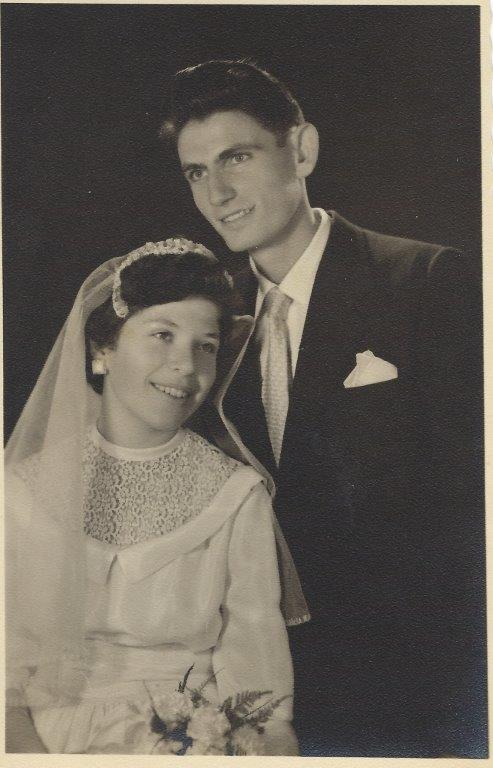 Zvi Plada